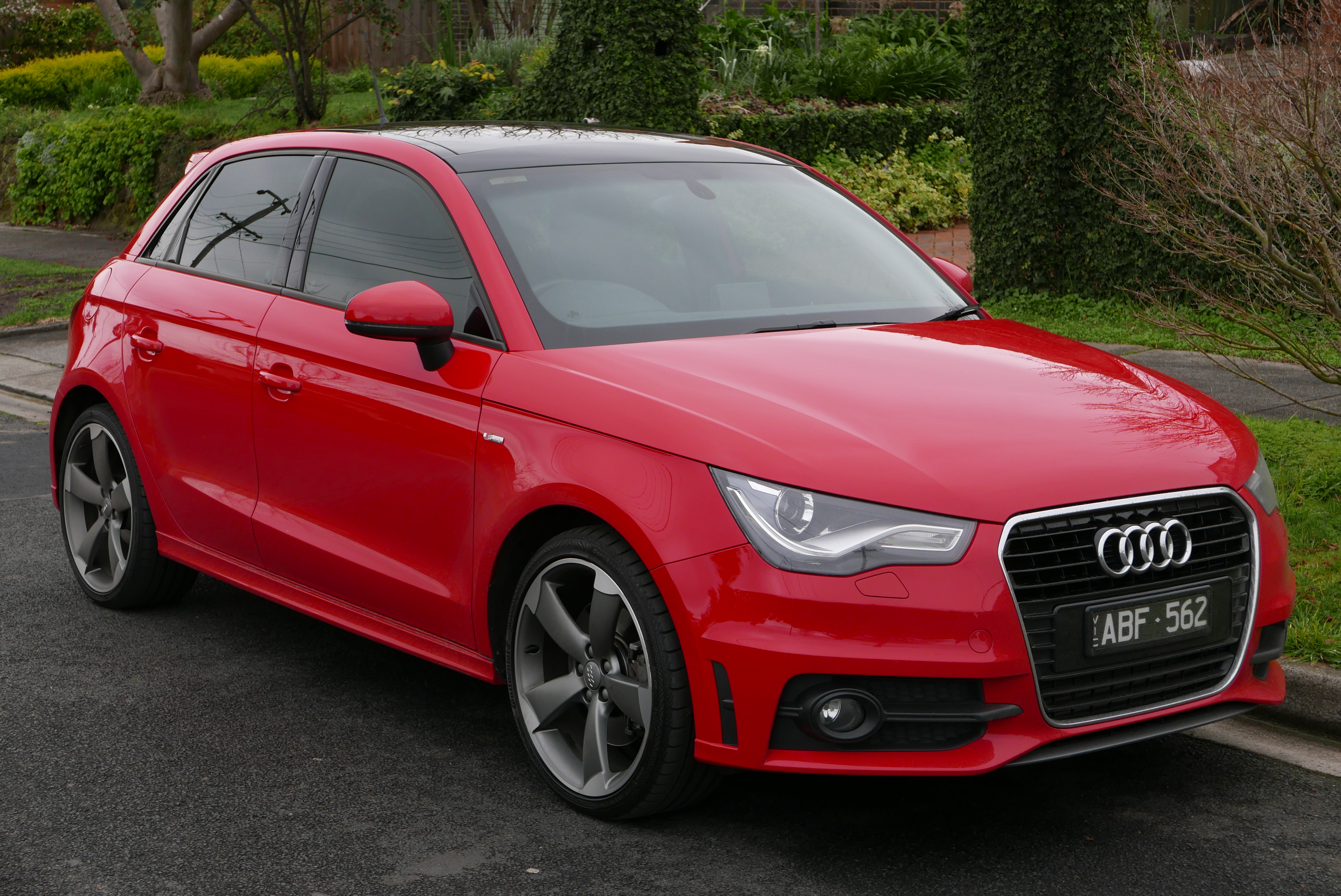 2013 Audi A1 (8X MY14) 1.4 TFSI Sport S line Sportback 5-door hatchback. Photographed in Doncaster, Victoria, Australia. Vehicle registration enquiry results Jurisdiction Victoria Registration ABF562 Chassis code WAUZZZ8X1EB008085 Engine code CTH078740 Compliance date 2013-11 Year of manufacture 2013